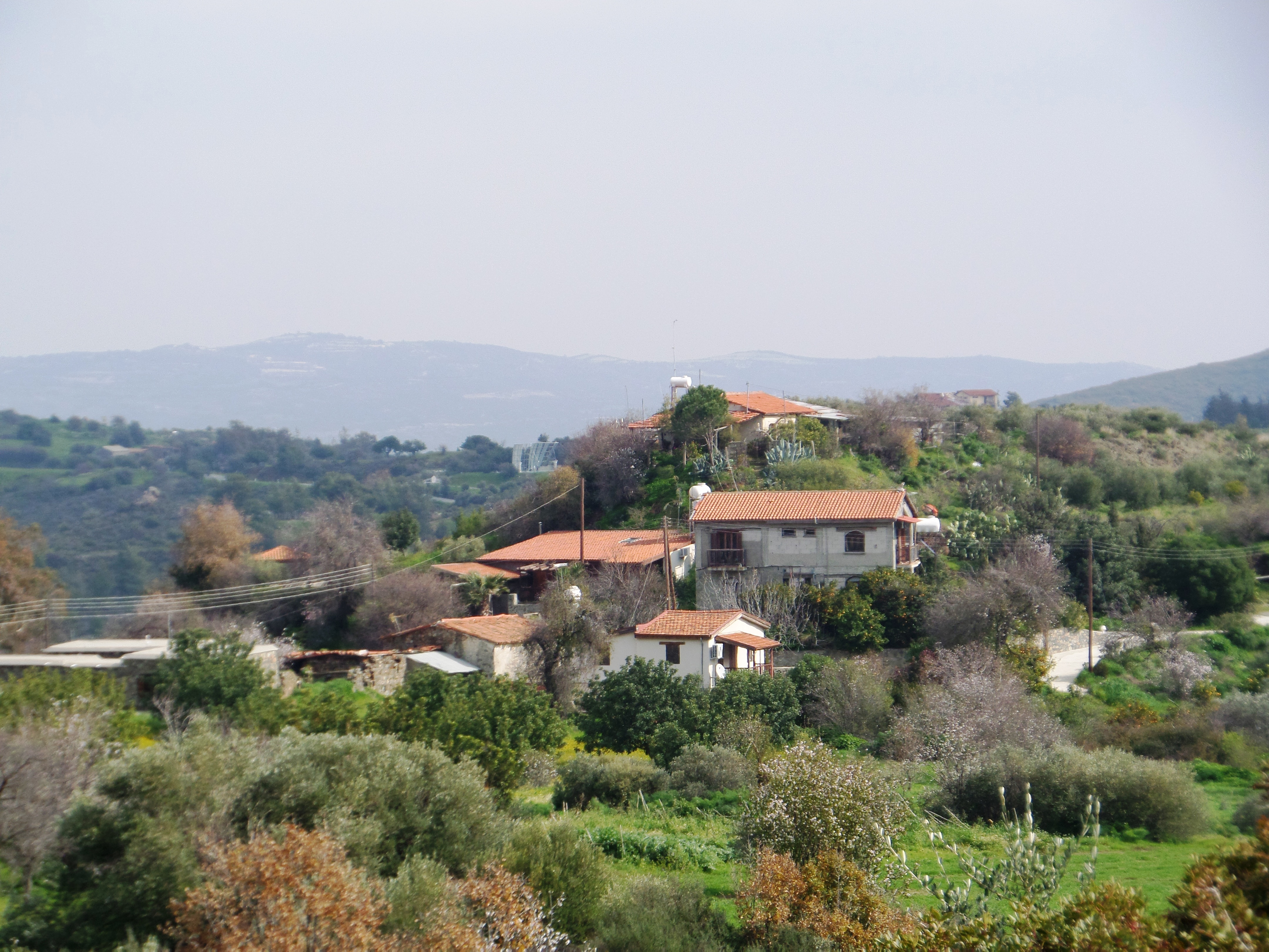 View of Klonari.